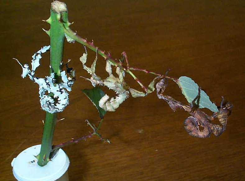 range of other extatosomas on a rose plant